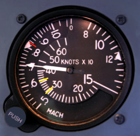 To observe both limits VMO and MMO, the pilot of a jet airplane needs both an airspeed indicator and a Machmeter, each with appropriate red lines. In some general aviation jet airplanes, these are combined into a single instrument that contains a pair of concentric indicators, one for the indicated airspeed and the other for indicated Mach number. Each is provided with an appropriate red line. [Figure 15-8]